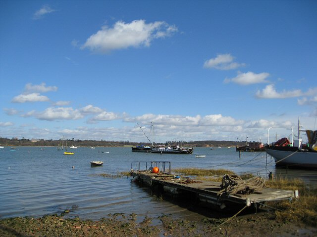 Boats moored on the River Orwell at Pin Mill A plethora of boats are moored on the river at this point.